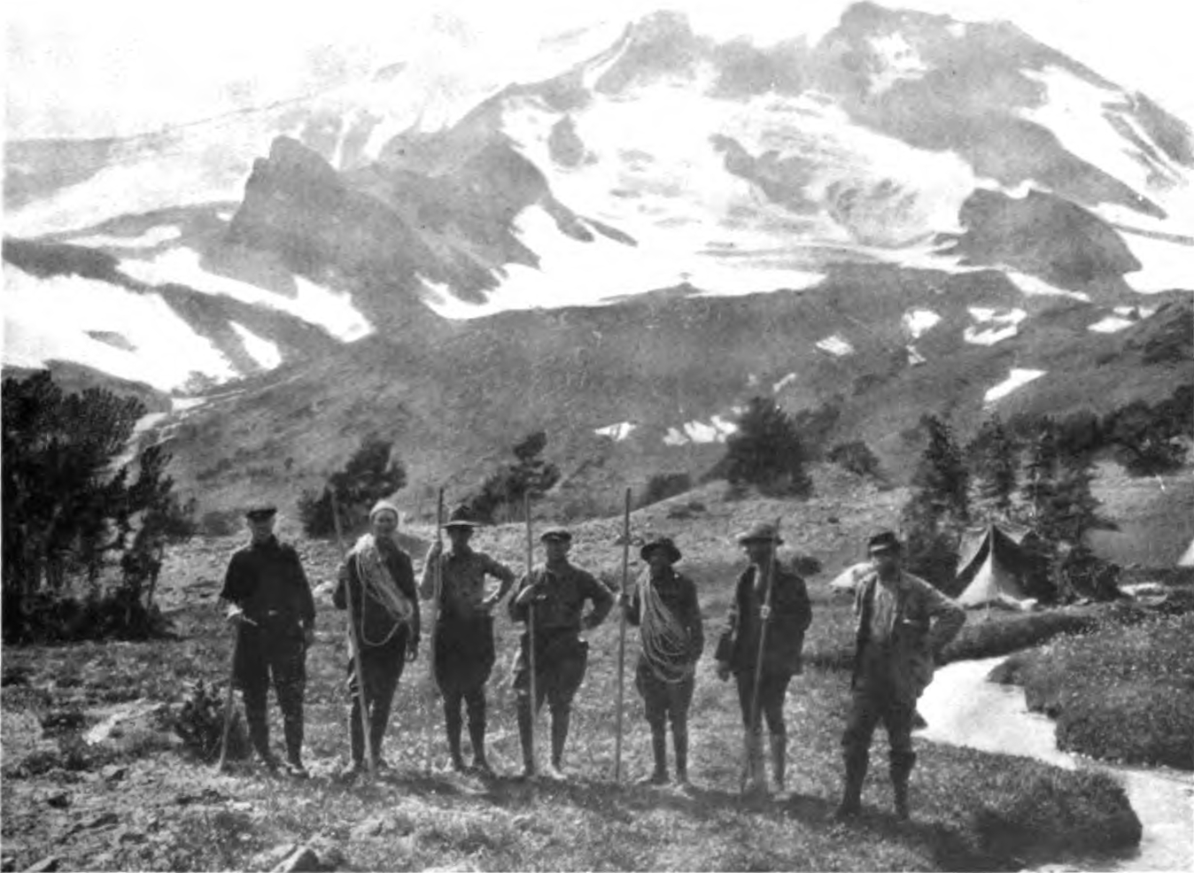 Climbing party from the Cascadians mountaineering club that made the first ascent of the east side of Mount Adams (Washington) before their ascent.